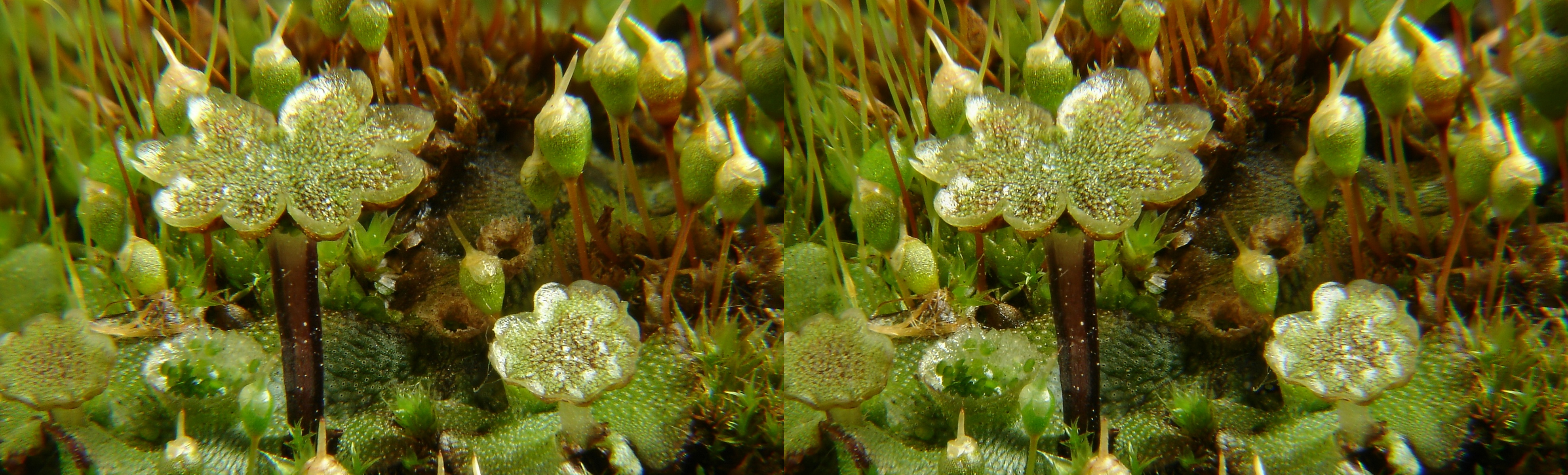 Marchantia polymorpha (common liverwort) in balcony flower box, Warsaw, Poland. Pictures taken from 2 positions, 9 focusing points each, stacked with Helicon Focus stacking program for greater depth of field. 3D edition in free Stereo Photo Maker program.